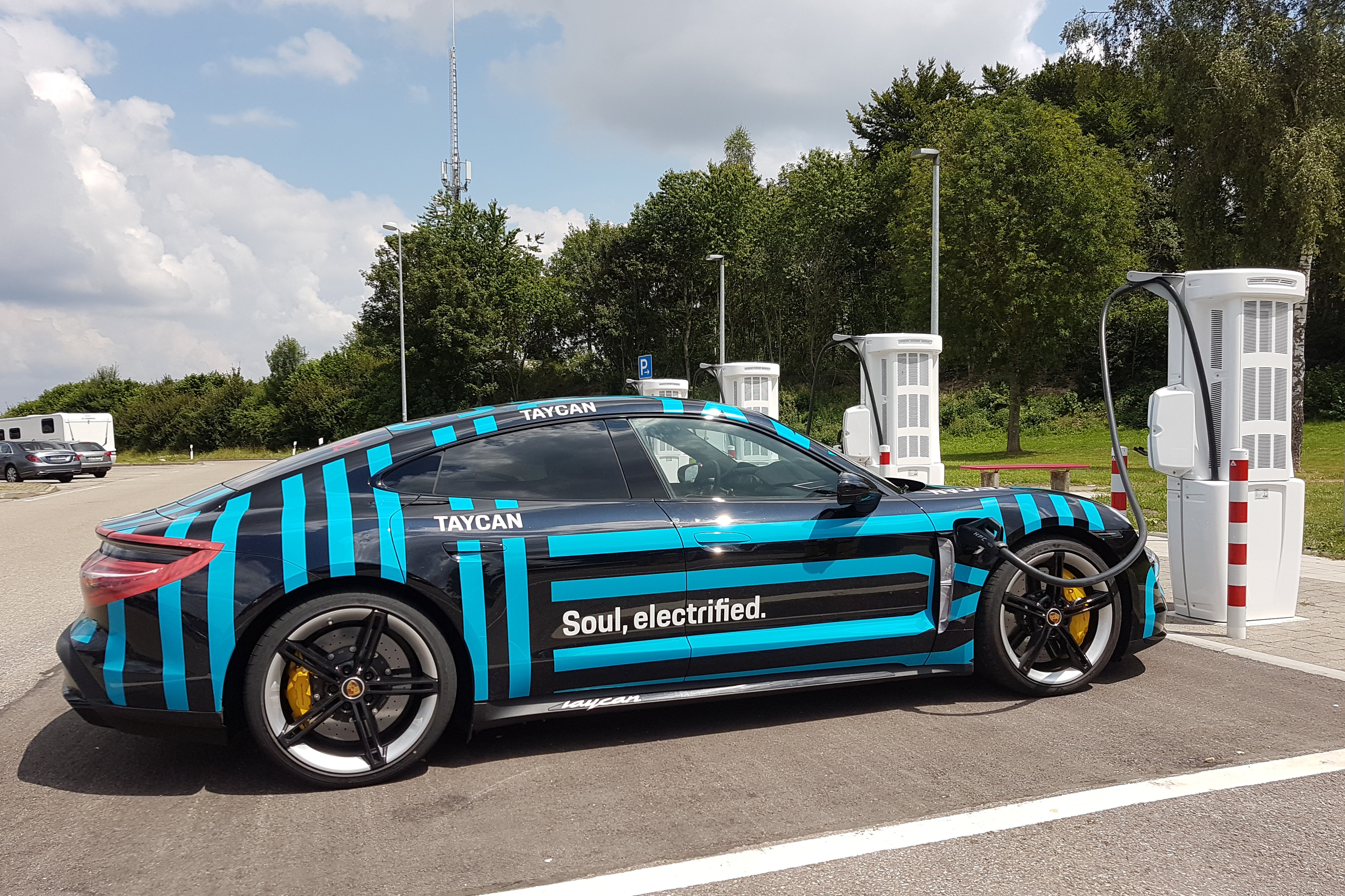 Porsche Taycan at the charging station (2019-07-19)